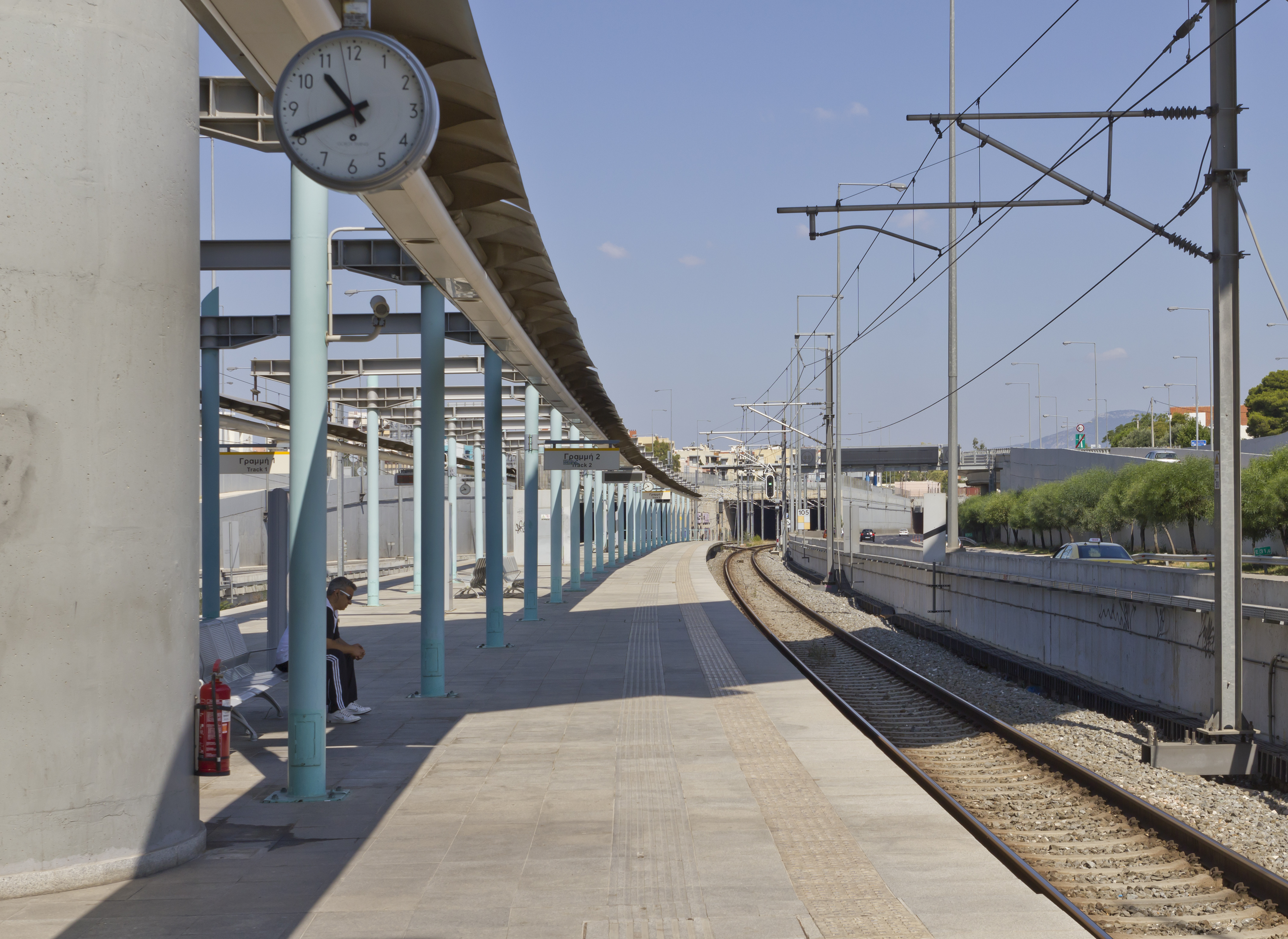 Proastiakos station «Plakentias» near Athens (Attica, Greece)